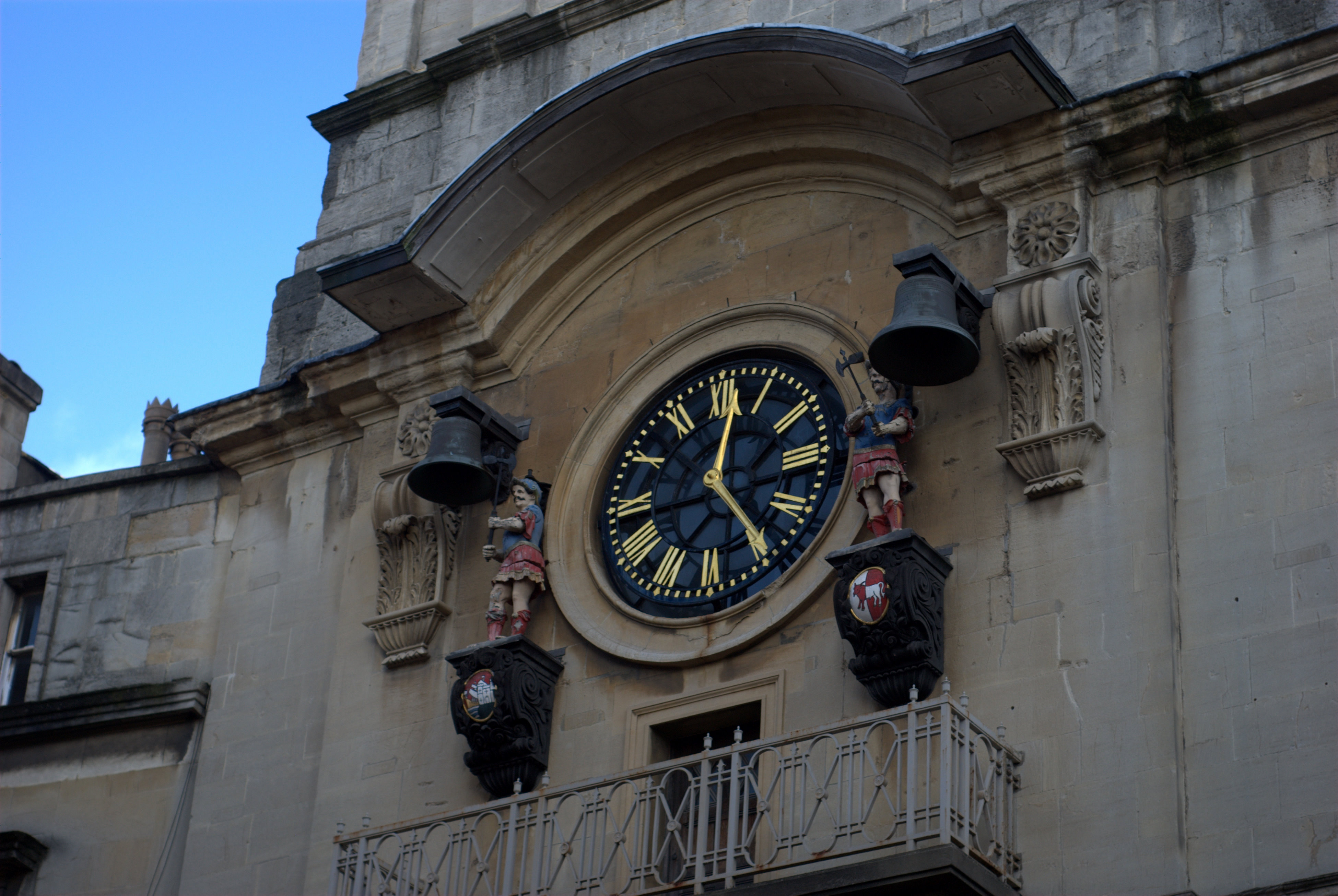 The clock of Christ Church with St Ewen, Bristol